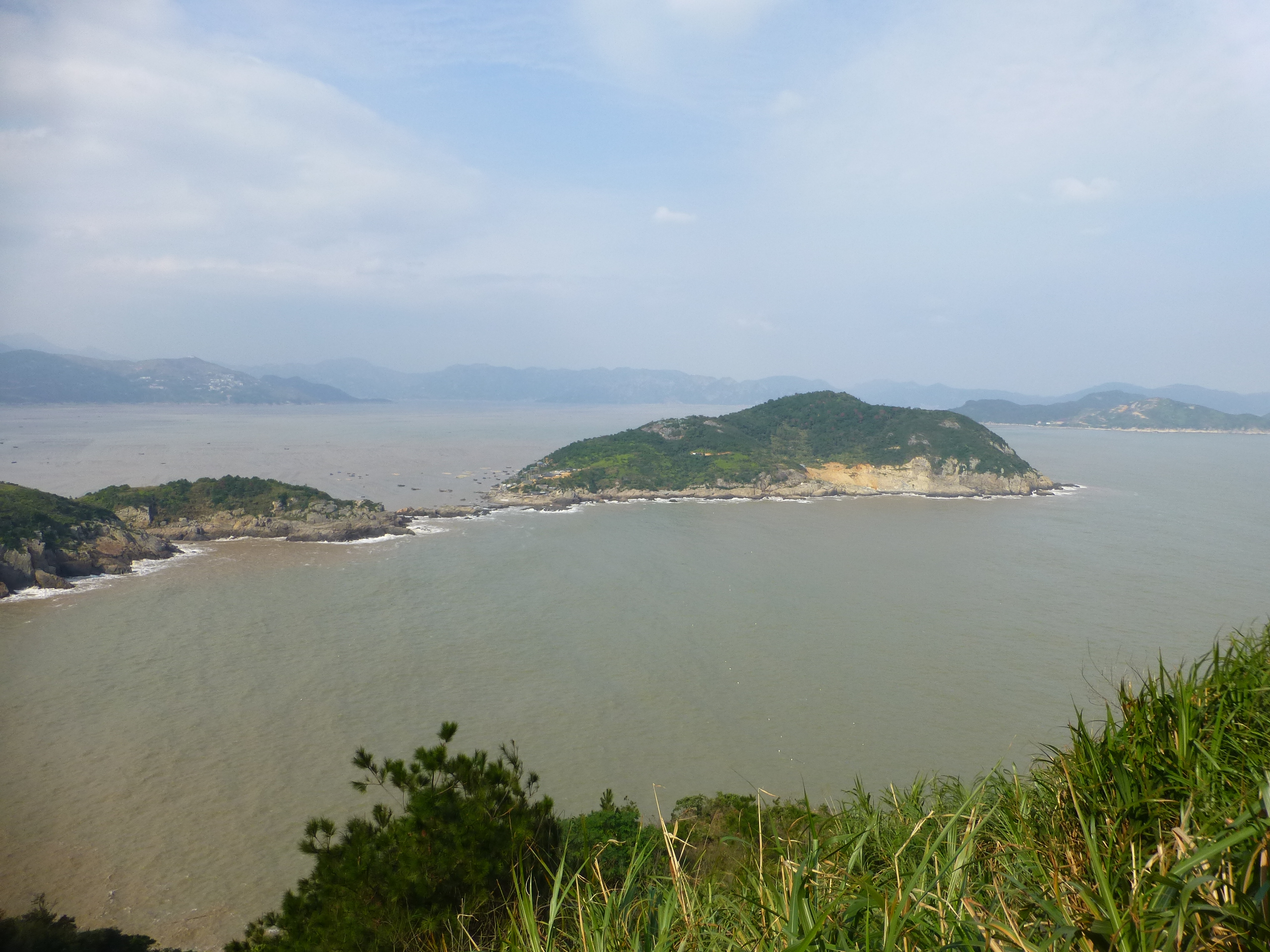 Damen Shan (大门山), a peninsula in Dayu Bay connected with the mainland by a very narrow and low isthmus (which may be covered with water in high tide) . Chixi Town, Cangnan County, Zhejiang, China.